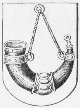 Coat of arms of Horns Herred (Hundred) (Zealand), a former administrative subdivision of Denmark, 1584 version. Illustration from the article Om danske By- og Herredsvaaben written by Anders Thiset and published in Tidsskrift for Kunstindustri 1893-1894.